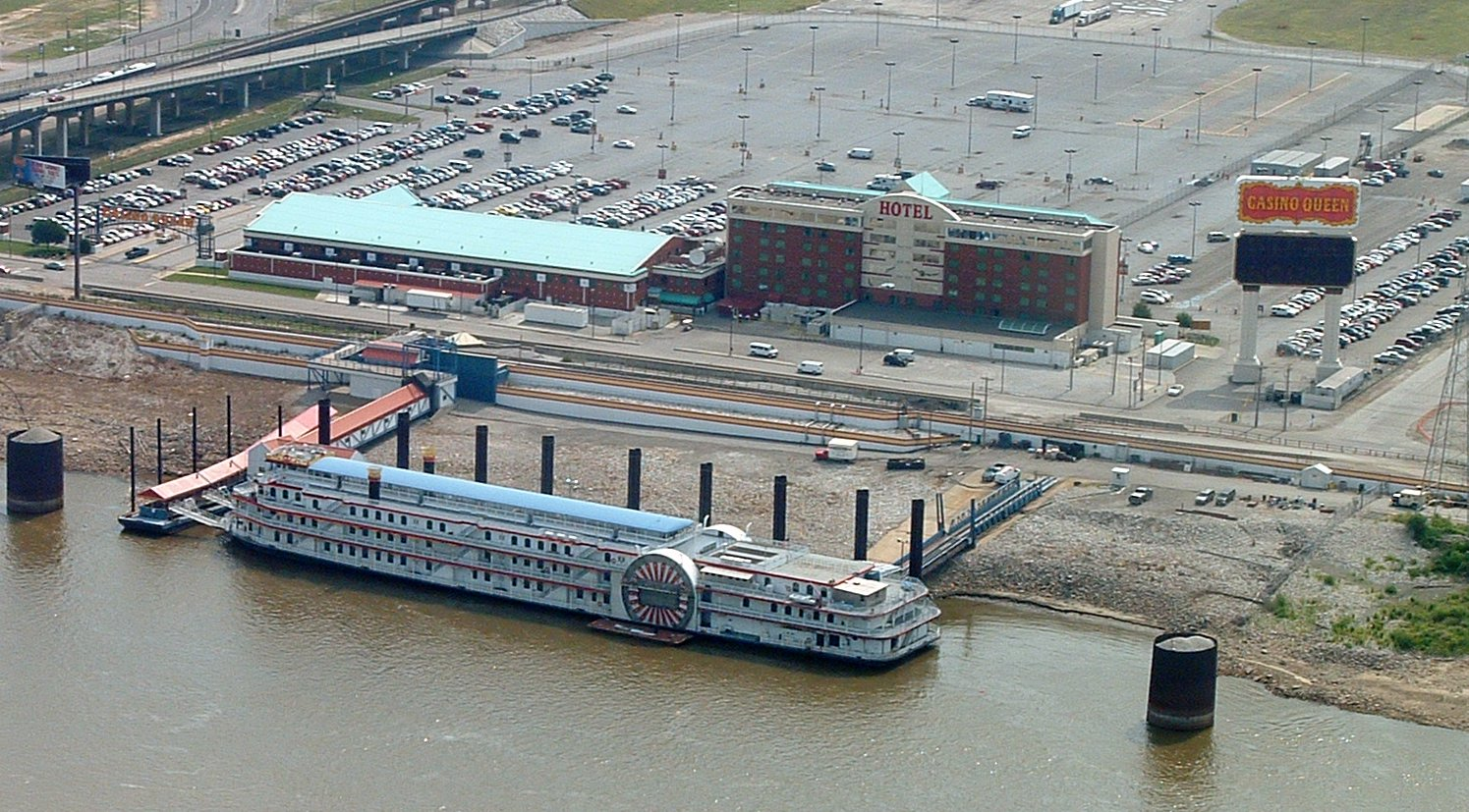 The Casino Queen, a riverboat casino in East St. Louis, Illinois. Photographed June 15, 2006 from the Jefferson National Expansion Memorial, St. Louis, Missouri by Kelly Martin.